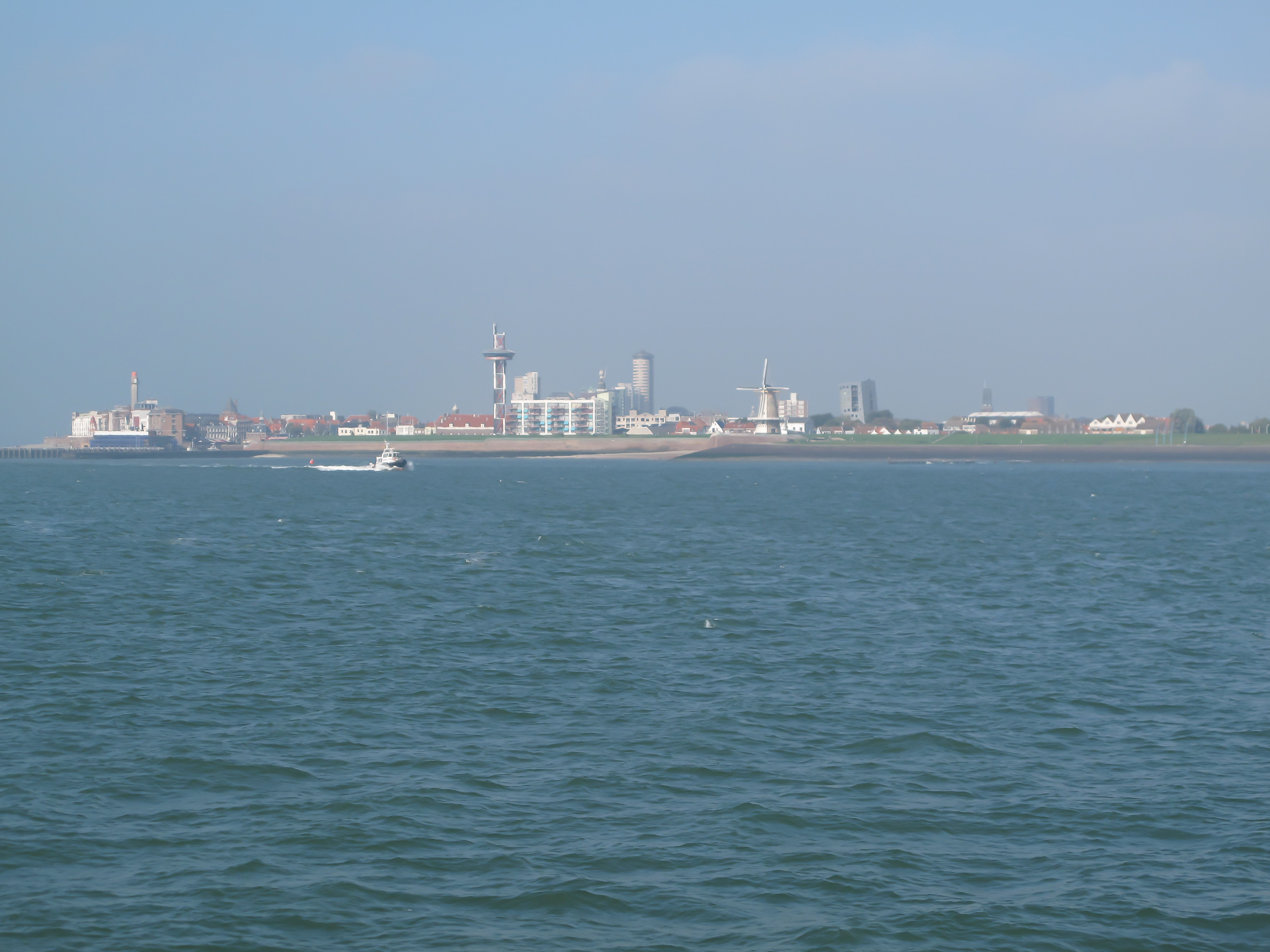 Vlissingen, view to the town from the Westerschelde